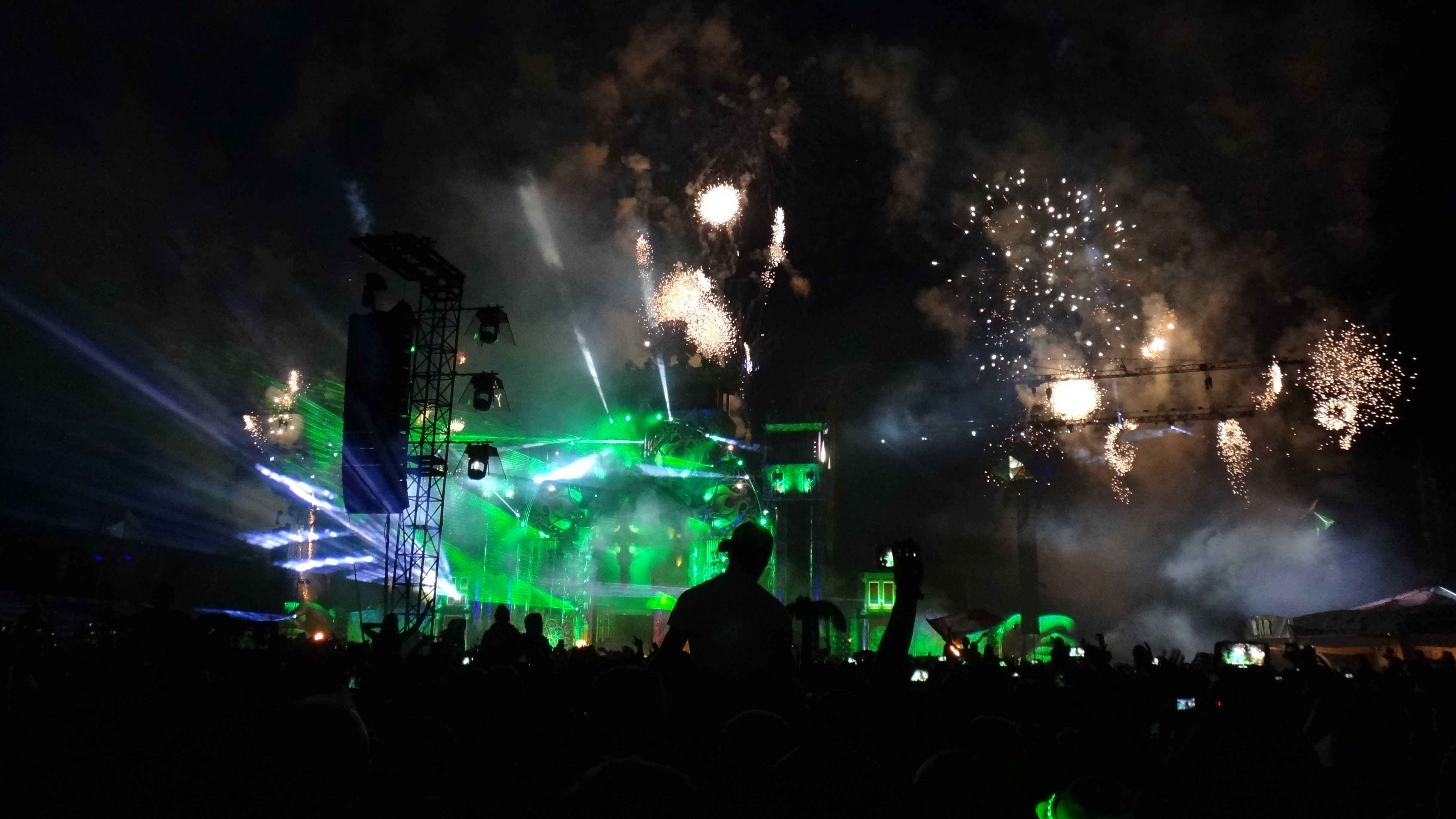 LIghts and fireworks at the end show of the Defqon.1 music festival, June 20, 2015.